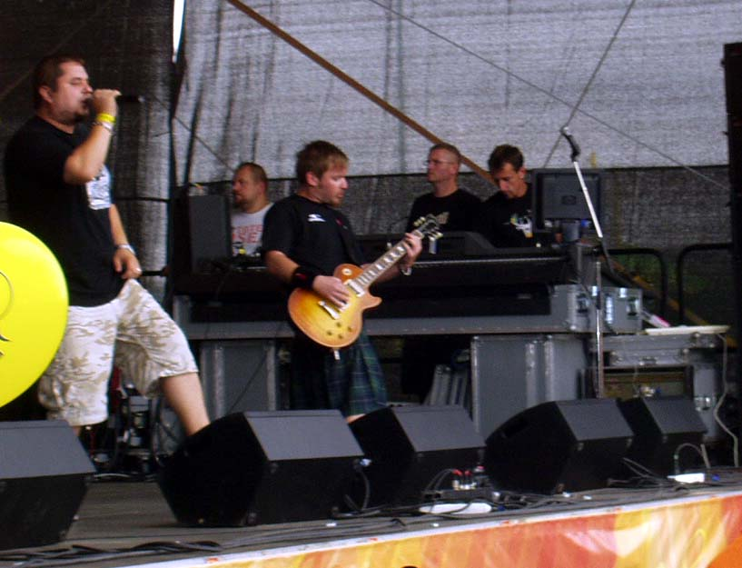 The Desmod's performance on the Open Doors Day for TV Markiza - Slovakia